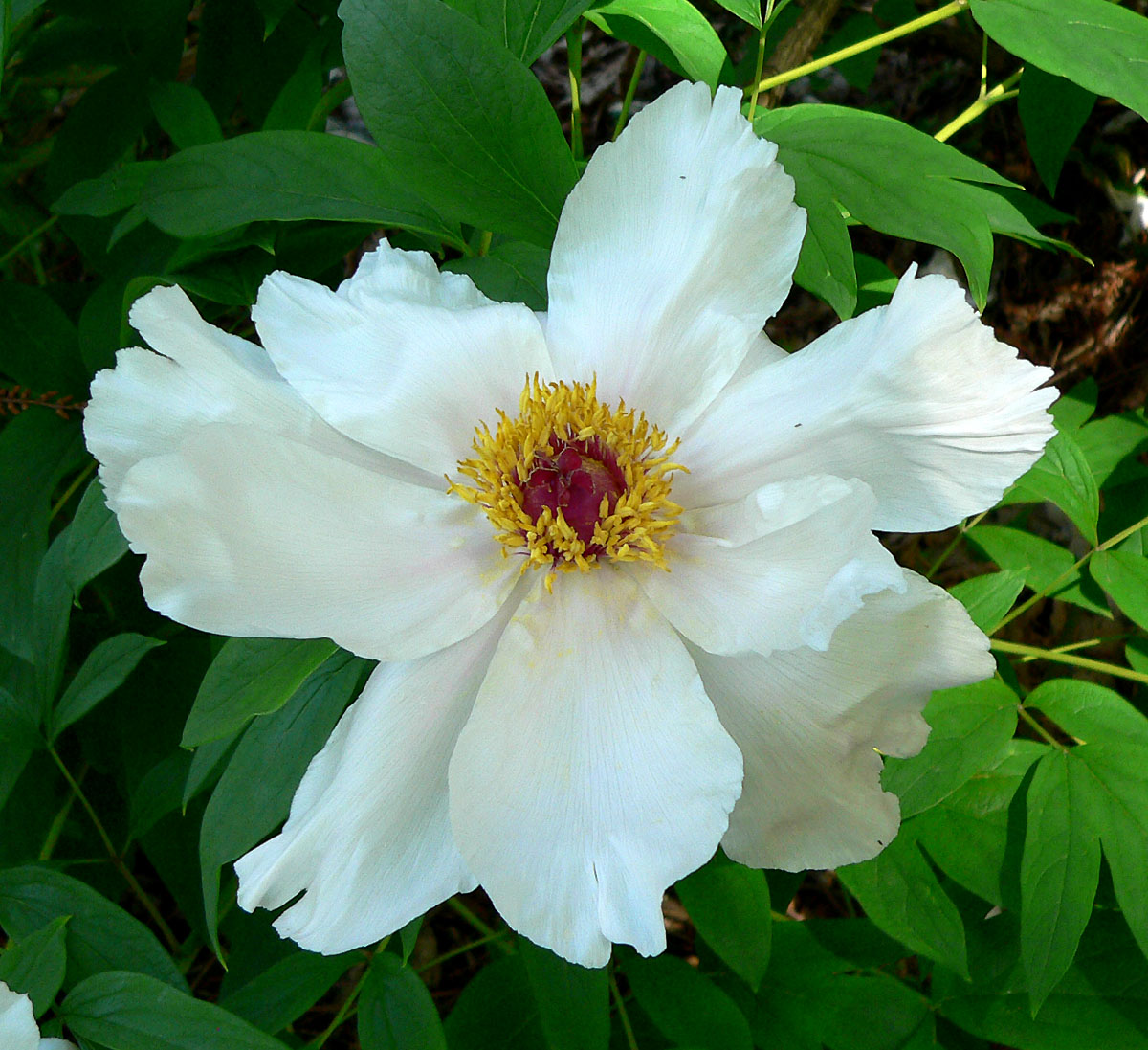 Paeonia ostii at the University of California Botanical Garden, Berkeley, California